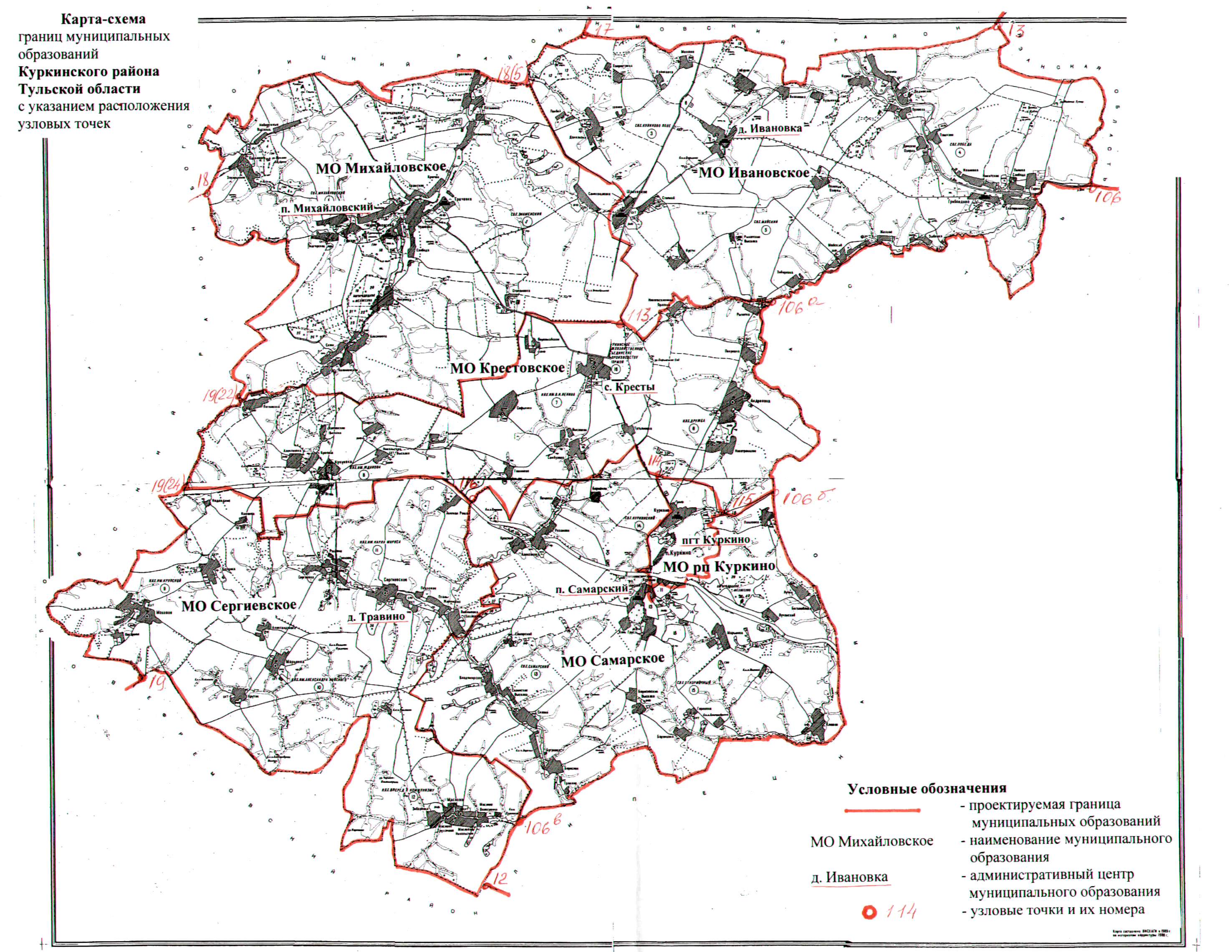 Administrative division of Kurkinsky_District as of 2005.